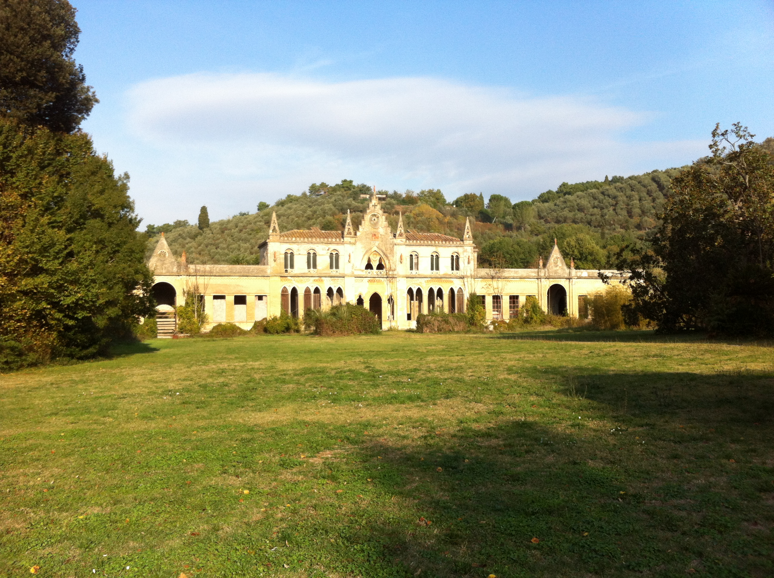 Bigattiera at Villa Roncioni, Pugnano, San Giuliano Terme, Pisa